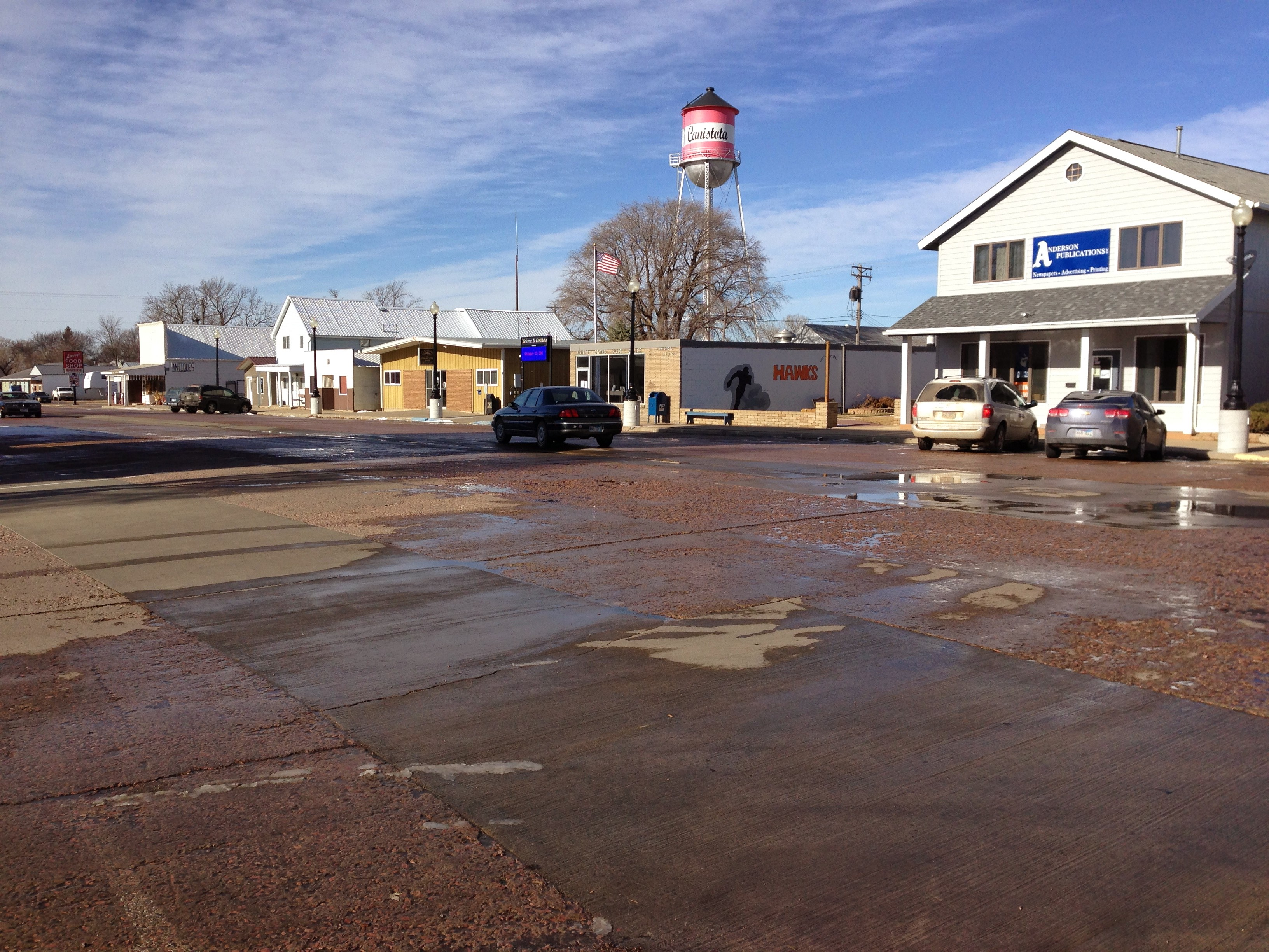 Canistota, South Dakota, around Thanksgiving 2014